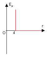 The graph of intermolecular force and potential energy by the rigid sphere model.